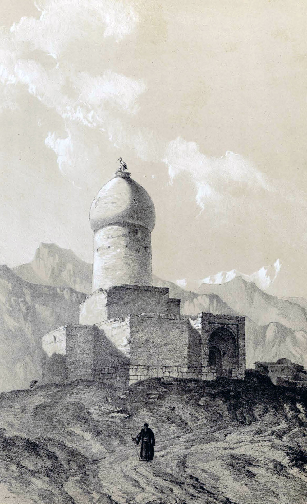 Monument erected to the memory of Esther and Mordecai , Hamadan